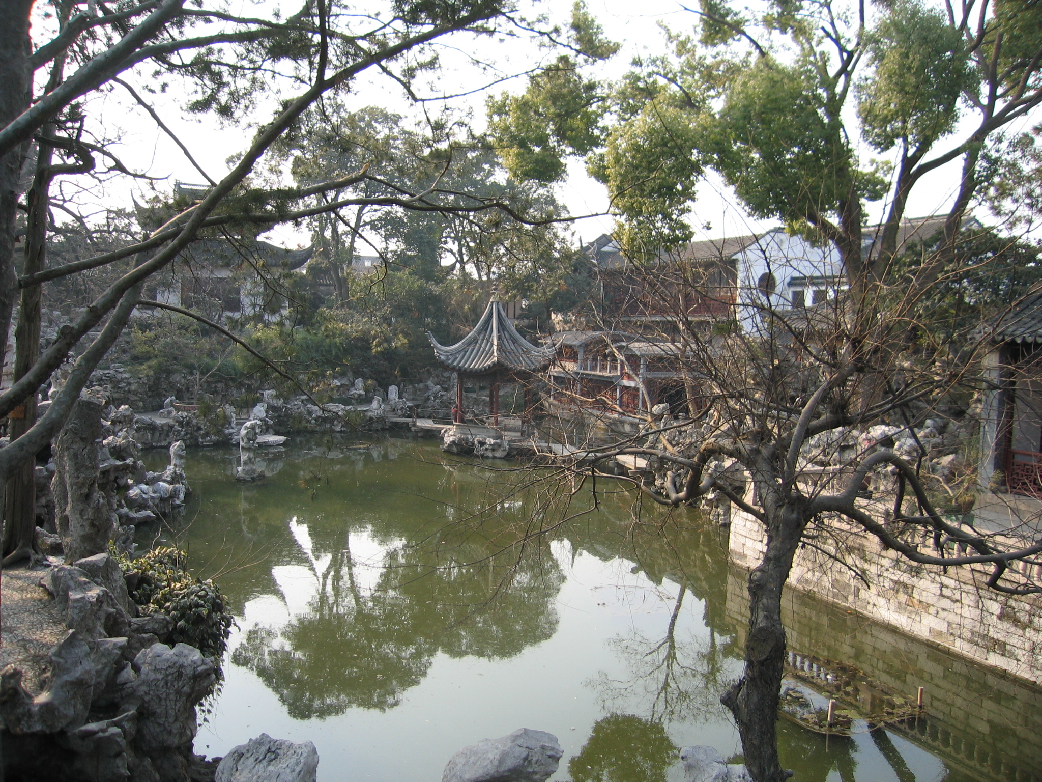 Lion Forest Garden is regarded as one of the top four classical Chinese gardens of Suzhou.